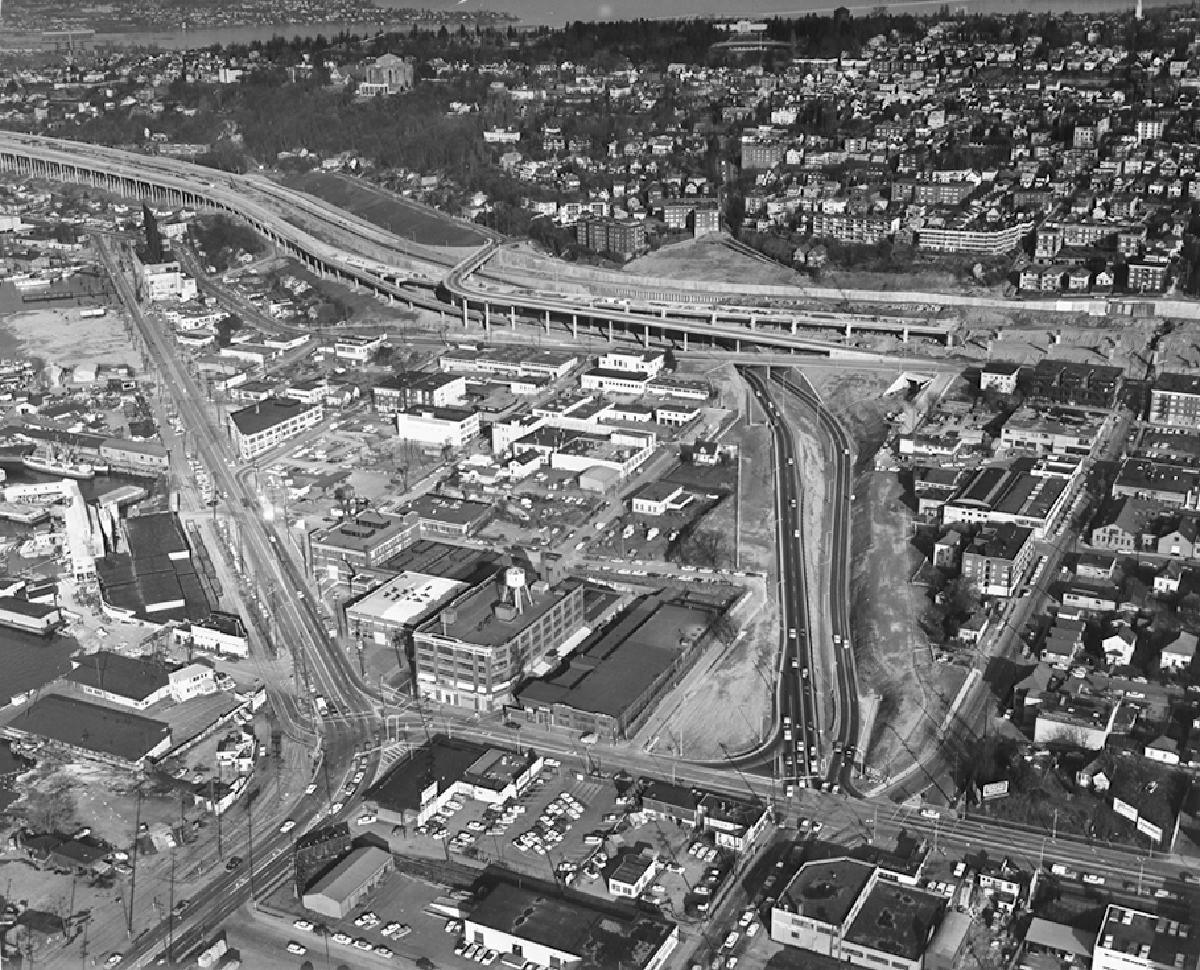 Aerial view of Interstate 5 under construction at its interchange with Mercer Street in Seattle.Item 64760, Miscellaneous Prints (Record Series 9910-01), Seattle Municipal Archives.